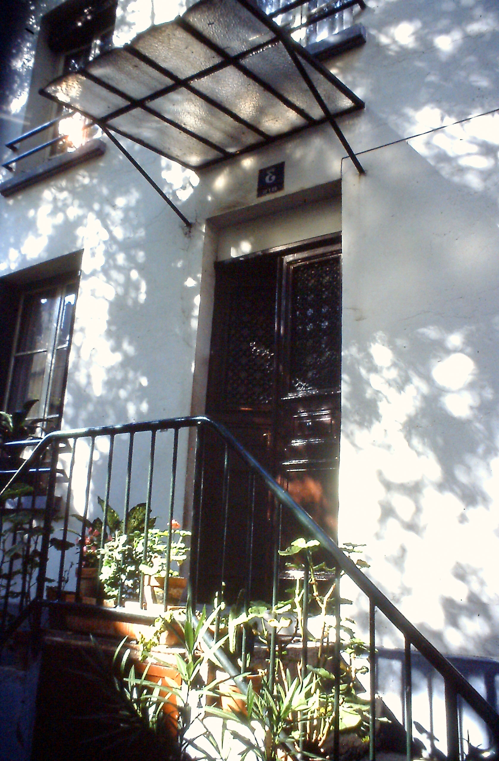 Villa in Paris